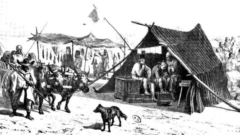 Roma in the Otoman Empire (original description: Zigeuner im ottomanischen Gebiet)